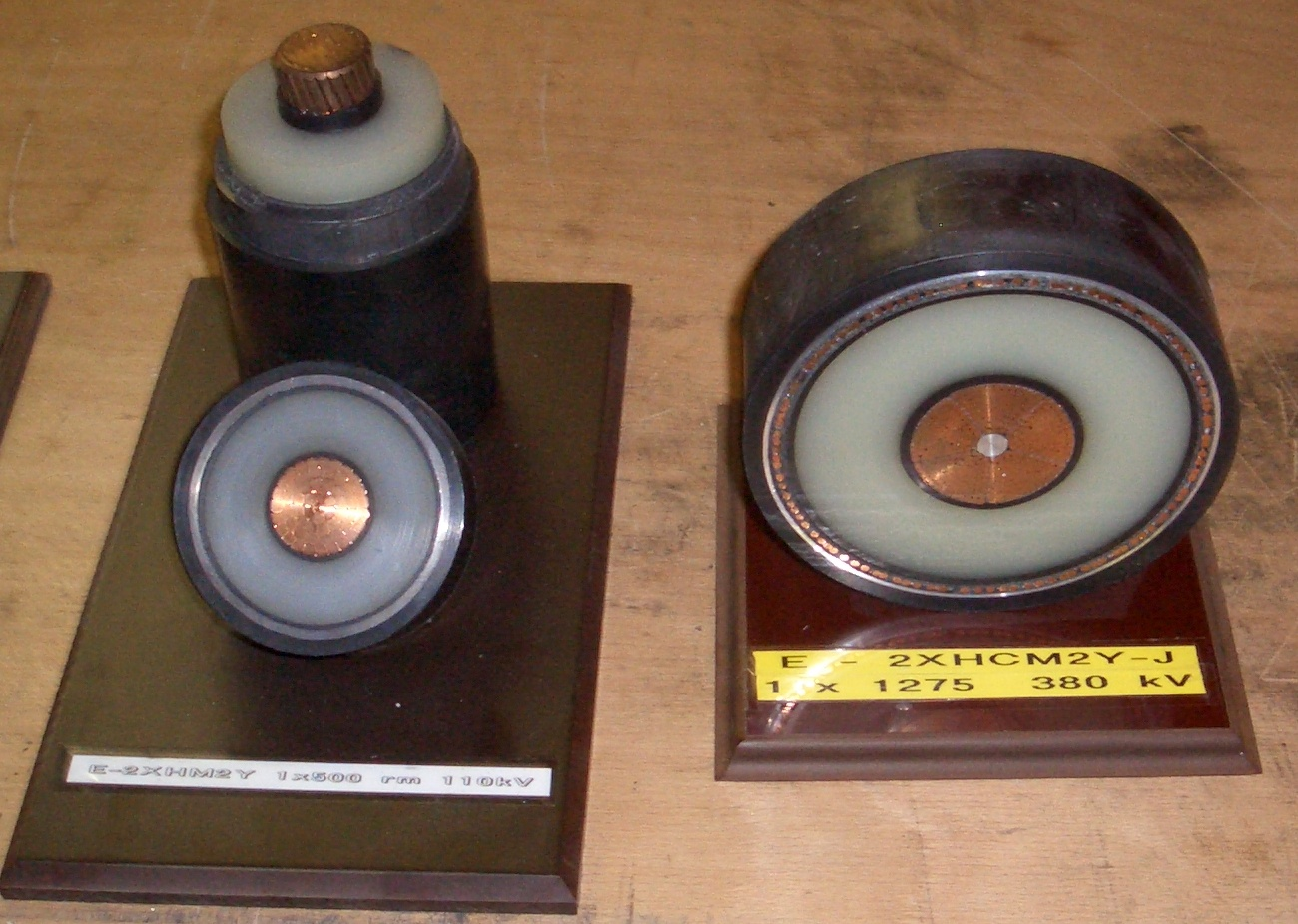 High voltage cable for 110kV (left,1x500) and for 380kV (right, 1x1275)